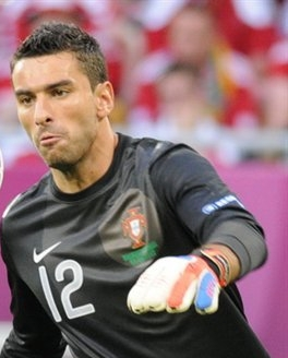 Rui Patrício in action for Portugal at the Euro 2012 match against Denmark